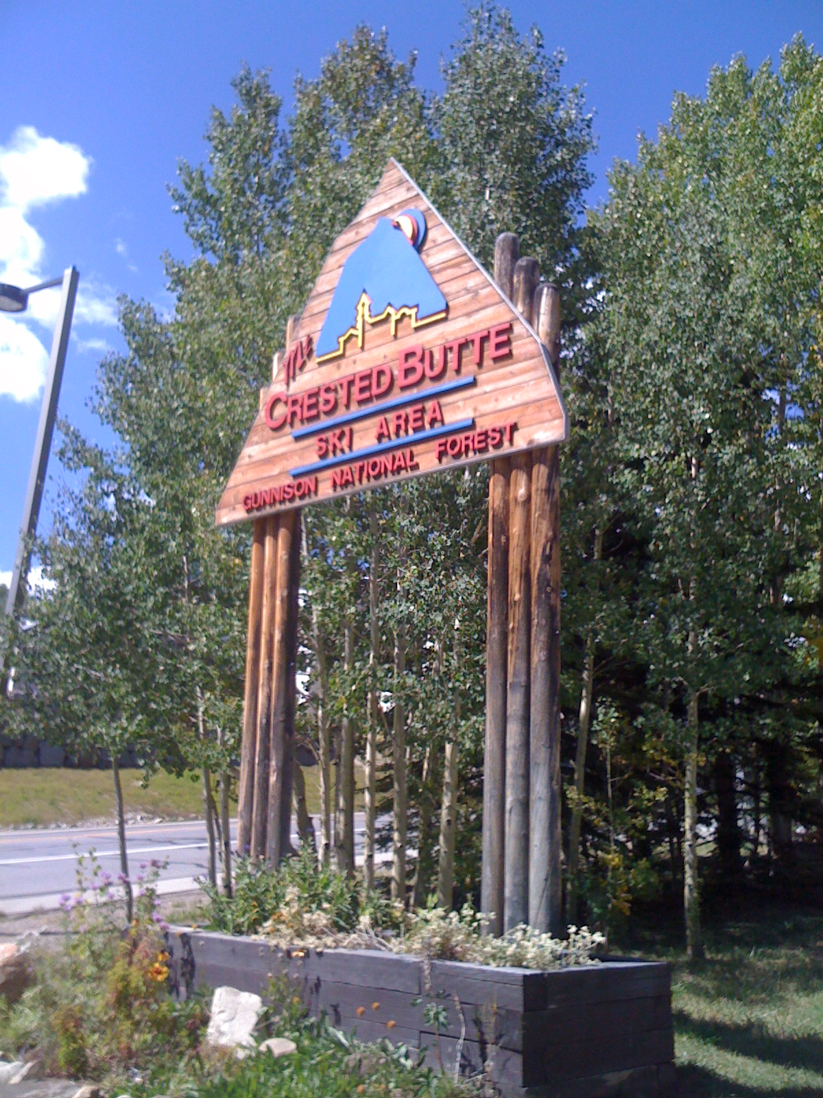 Photo of sign of Mount Crested Butte ski area on state Highway 135